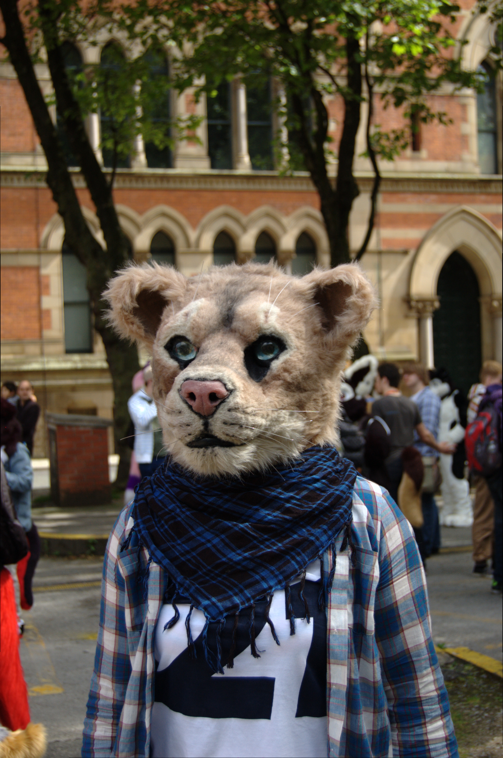 Photo of a feline custom in Manchester June 2013 furoticon Meet, in England